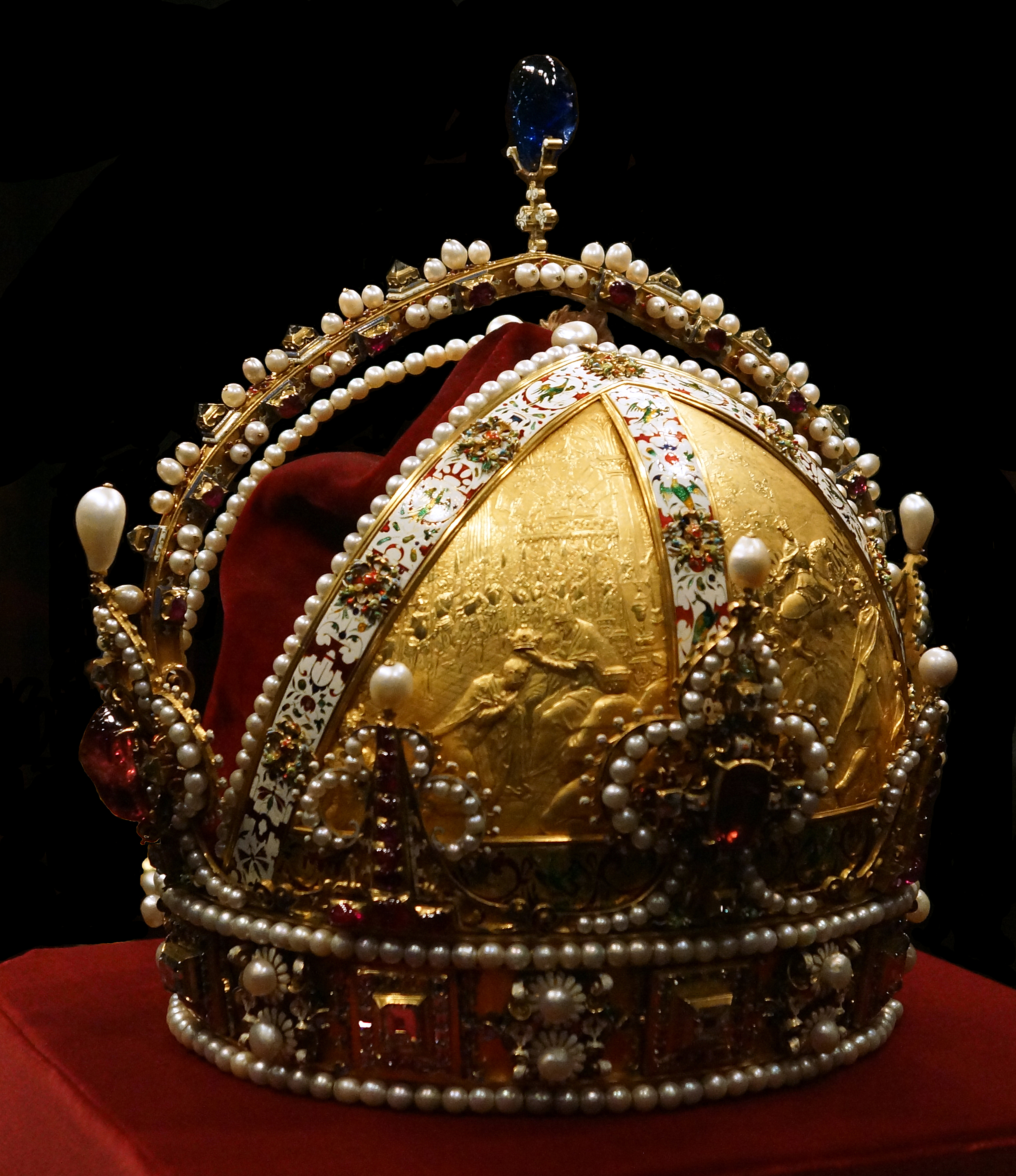 Imperial Crown of Austria displayed in the Imperial Treasury at the Hofburg Palace in Vienna, Austria